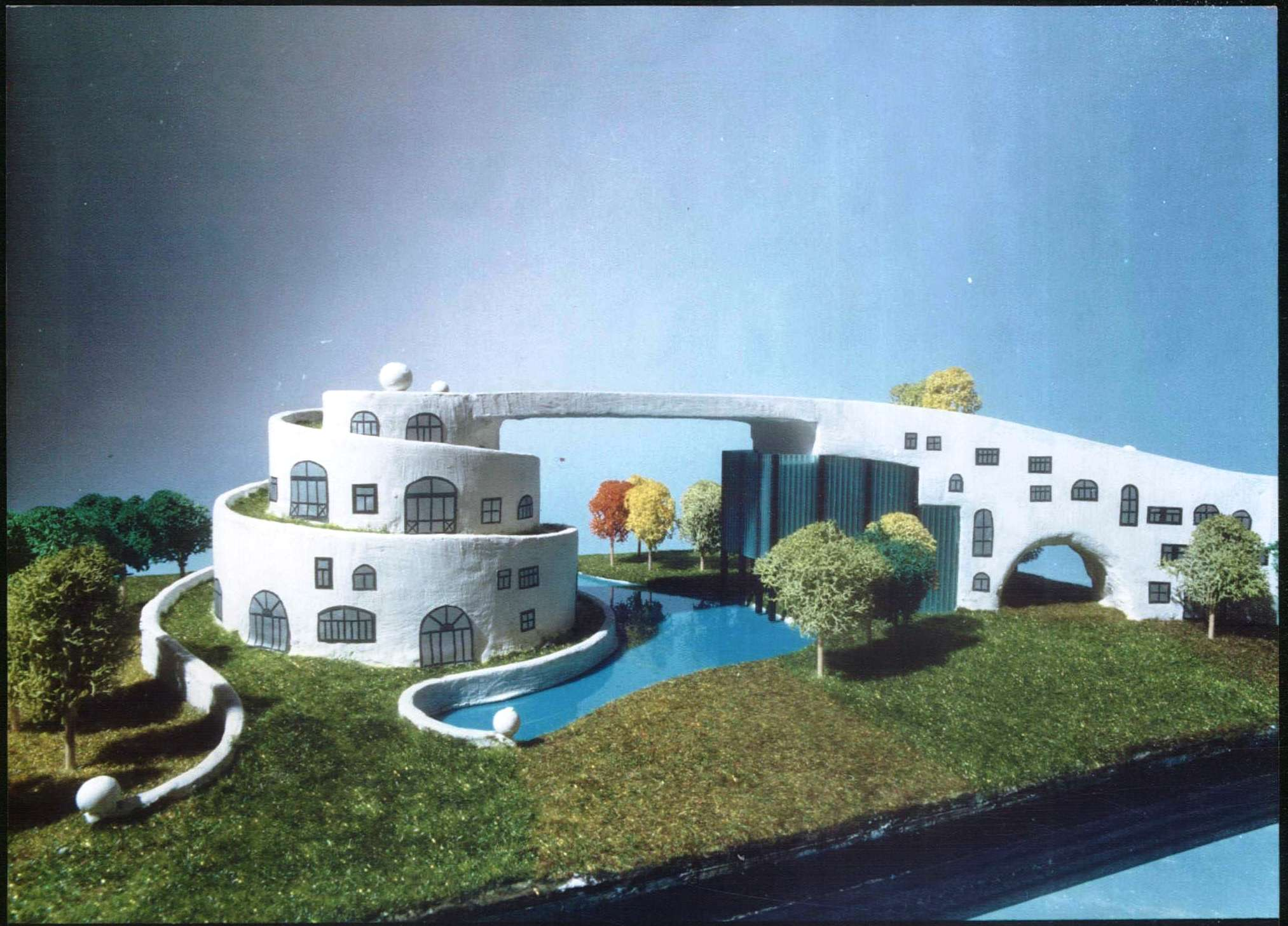 Friedensreich Hundertwasser (15 December 1928 – 19 February 2000) was a world-renowned Austrian artist, architect and environmentalist. He first visited New Zealand in the 1970s and decided to make it his second home, purchasing property in Northland. In New Zealand, Hundertwasser is remembered for gifting a koru flag design to the nation as a proposed secondary flag, and for designing the colourful public toilets in Kawakawa – the only Hundertwasser structure in the Southern Hemisphere. Hundertwasser died at sea onboard the QE2, aged 71. He was buried in New Zealand, which he considered his official home. The photograph above shows a model of a building that Hundertwasser designed with Wellington in mind. He described the building as ‘an architectural statement (monument) that enshrines the desire for mutual respect and equality between the New Zealand peoples.’ The photo is labelled ‘Hundertwasser Monument for 1990’ and is included in a New Zealand 1990 Commission file containing correspondence and newspaper articles regarding Hundertwasser’s role as a ‘Living Treasure’ during New Zealand’s 1990 commemorative year. Archives reference: ABLD W3778 1/3 (R21240424) For updates on our On This Day series and news from Archives New Zealand, follow us on Twitter To enquire about this record please Material from Archives New Zealand